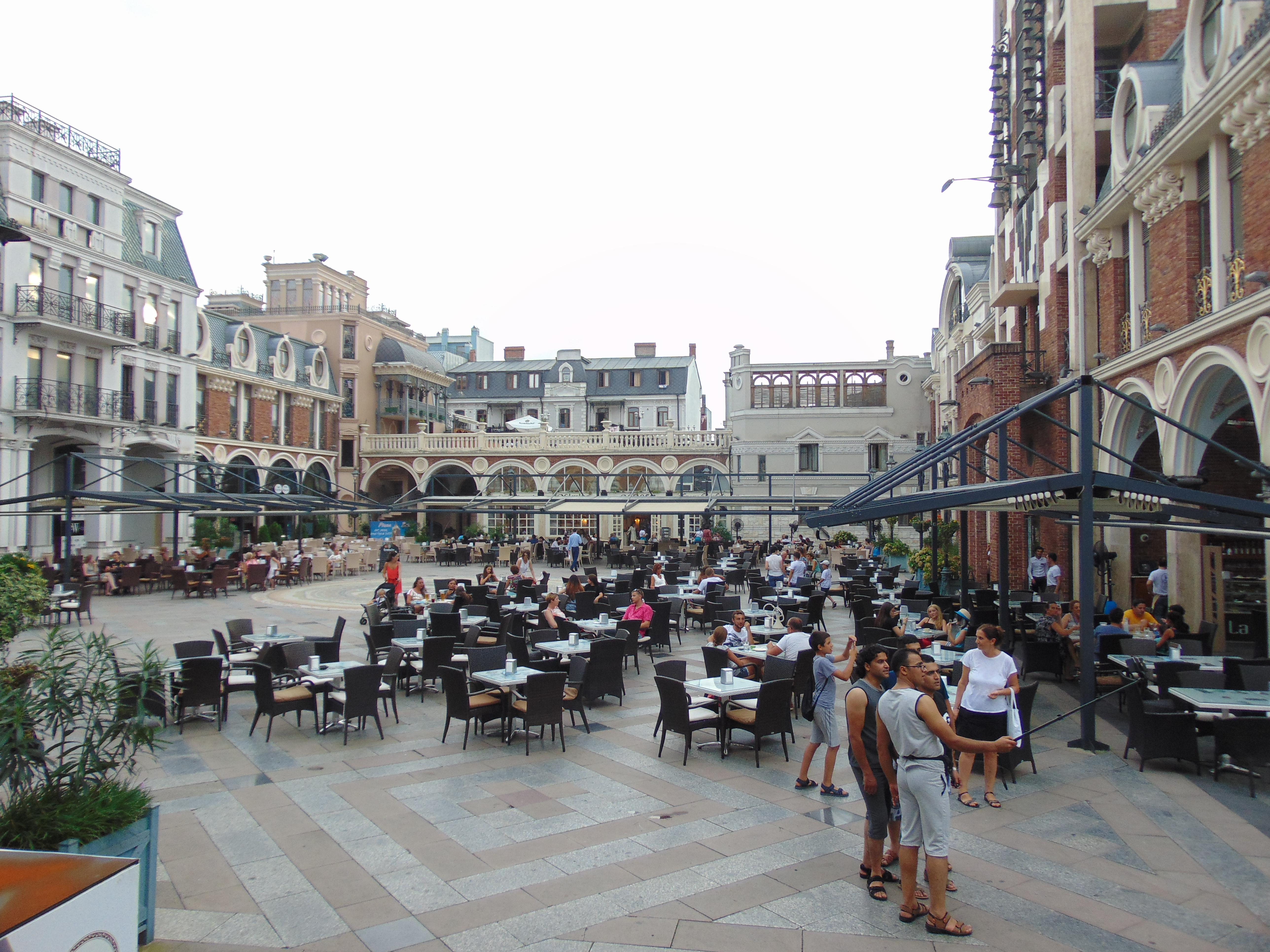 Piazza square, Batumi